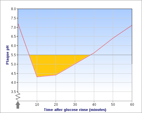 Stephan curve, showing sudden decrease in plaque pH following glucose rinse, which returns to normal after 30-60 mins